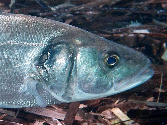 Head of Dicentrarchus labrax photographed in Minorca, Spain.